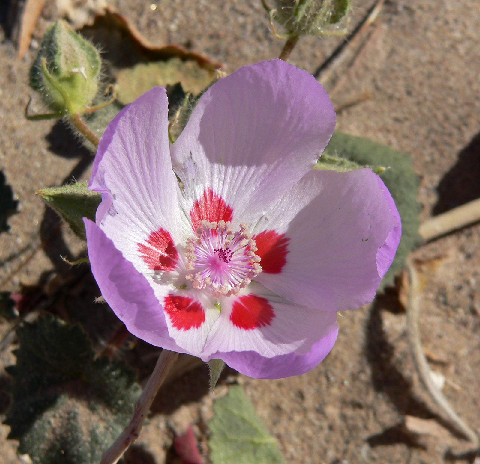 Eremalche rotundifolia — Desert five spot. In the riverbed of the Amargosa River near Dumont Dunes. In the Amargosa Desert section of the Mojave Desert, in eastern Southern California.